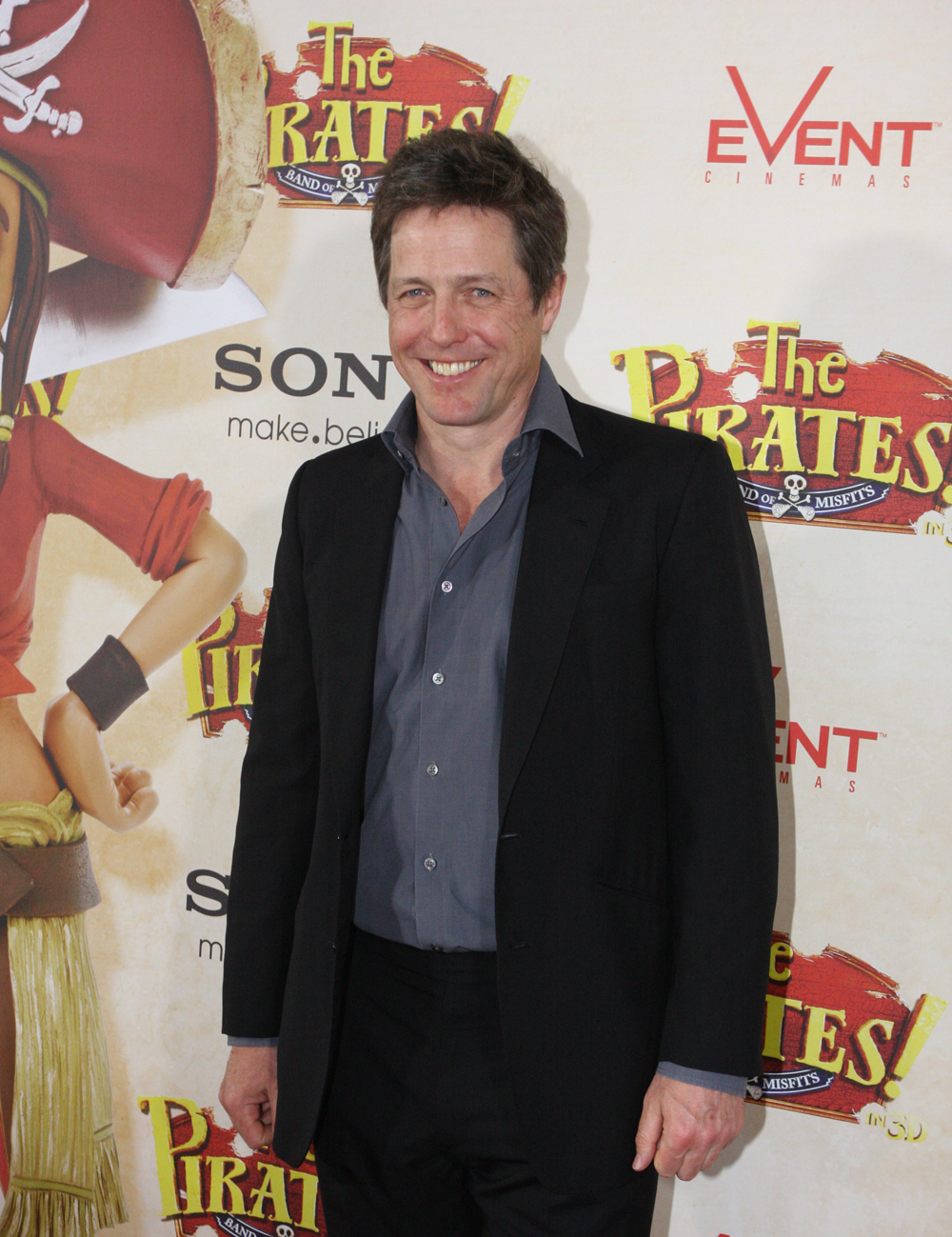 Hugh Grant at the "The Pirates! Band of Misfits" premiere in Sydney Australia